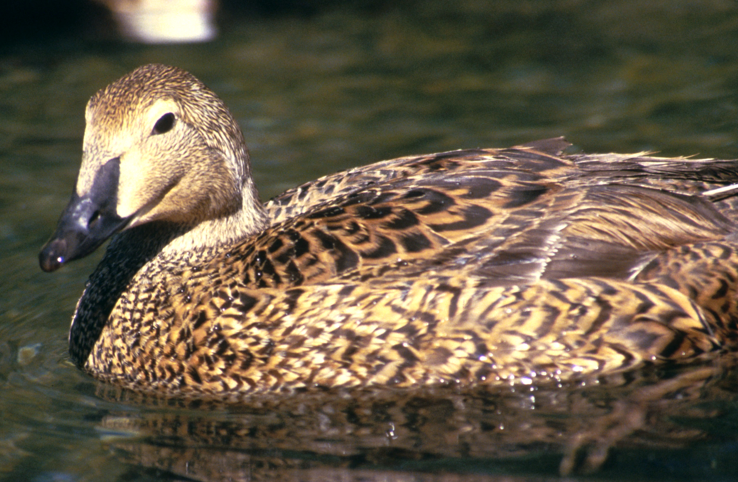 A hen King Eider (Somateria spectabilis)